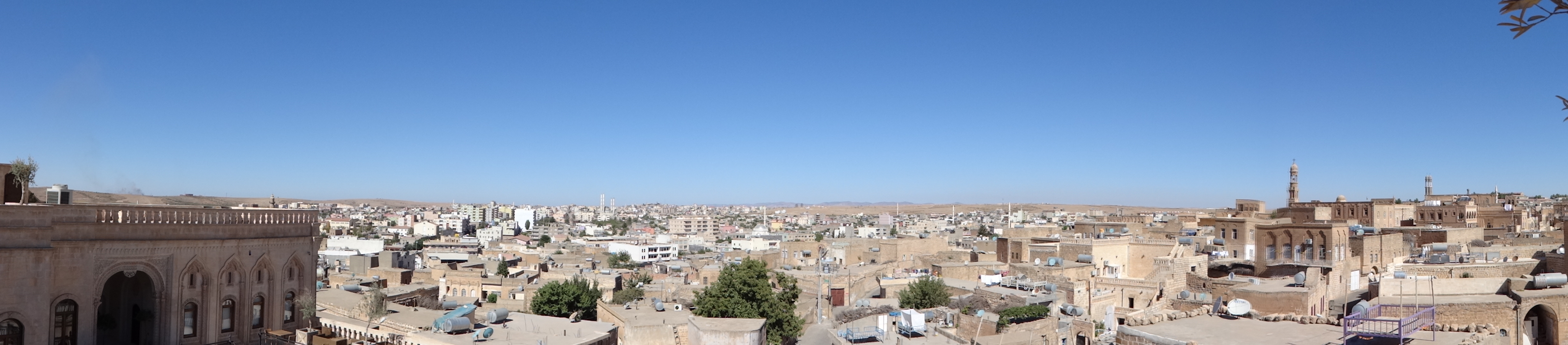 Midyat, new and old town